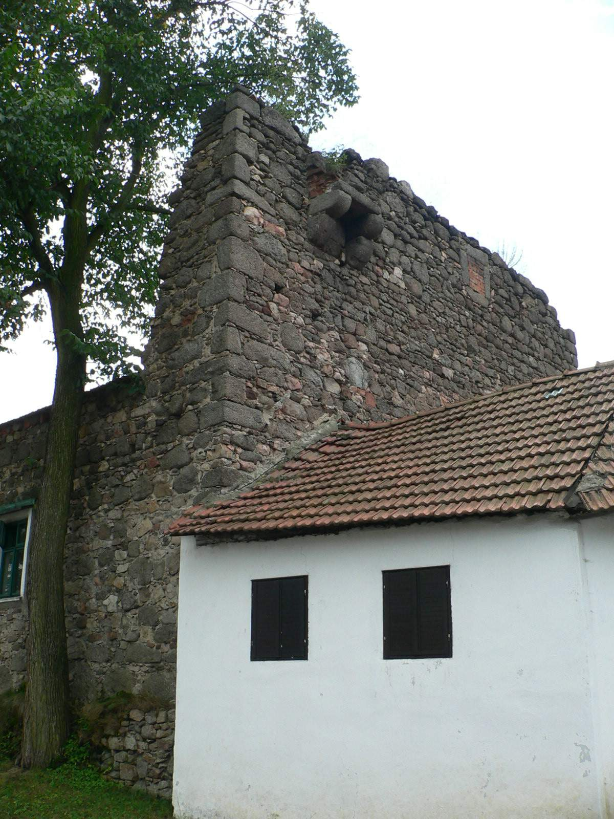 Stronghold in Nárameč